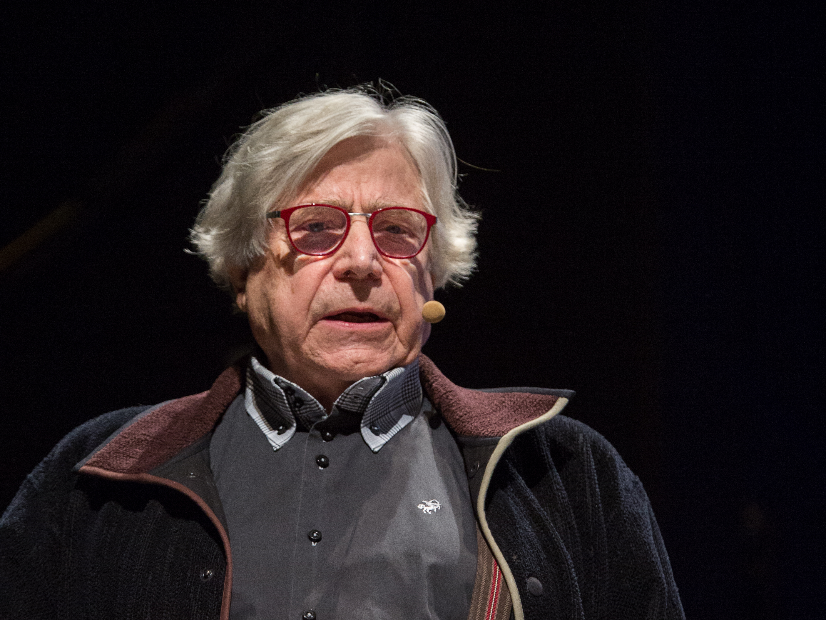 Bazon Brock at the See-Conference 2017 in the Schlachthof Wiesbaden